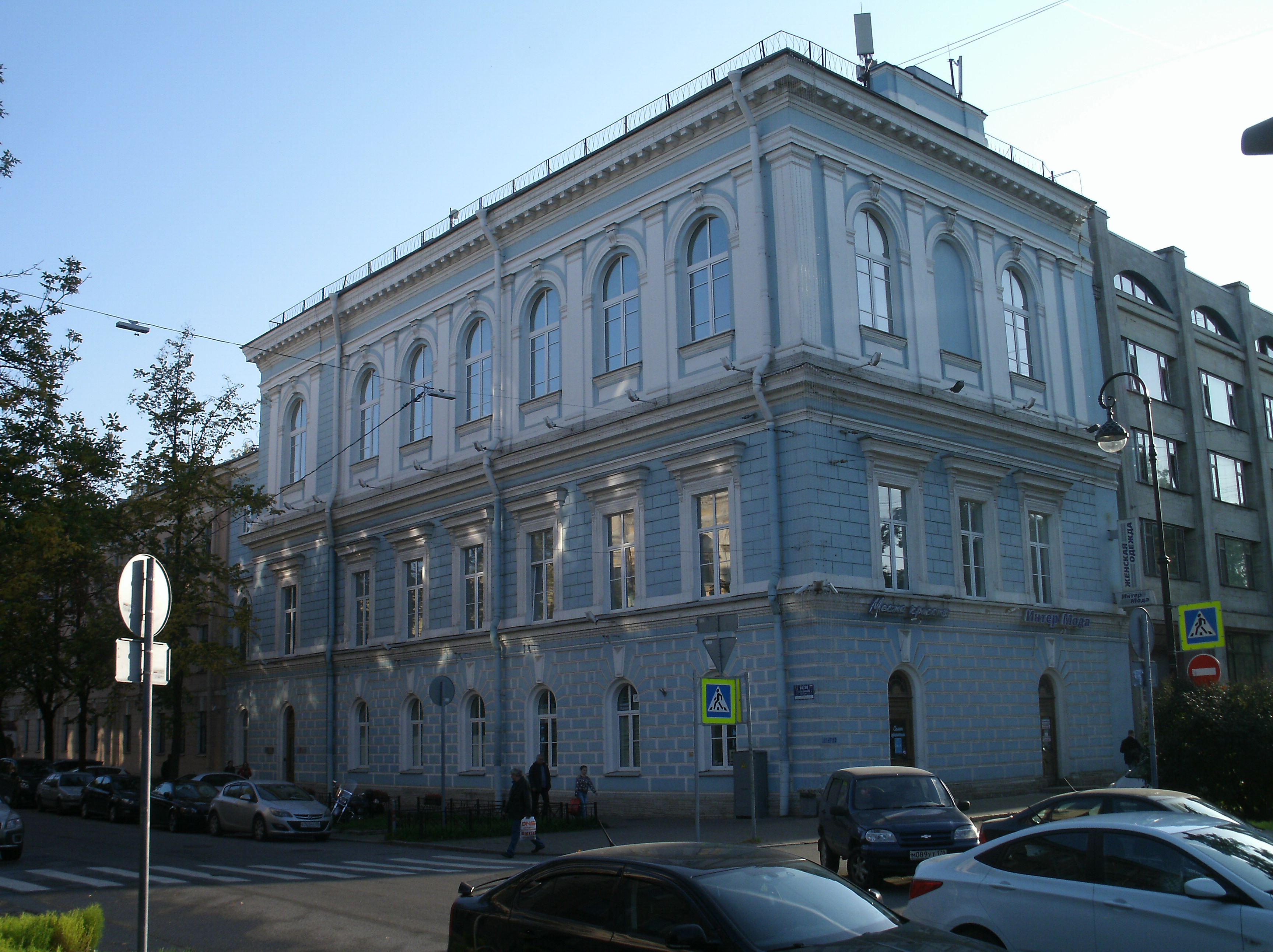 Elizabethan Institute; St. Petersburg